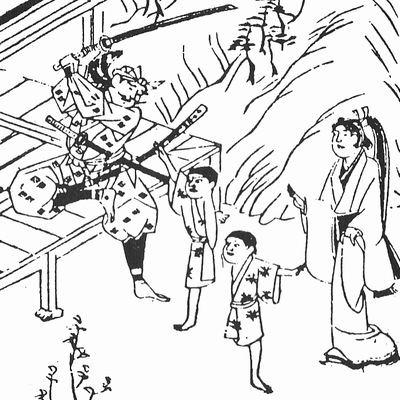 Asama-no-yashiro-no-Bakemono from the Shokoku Hyaku-Monogatari